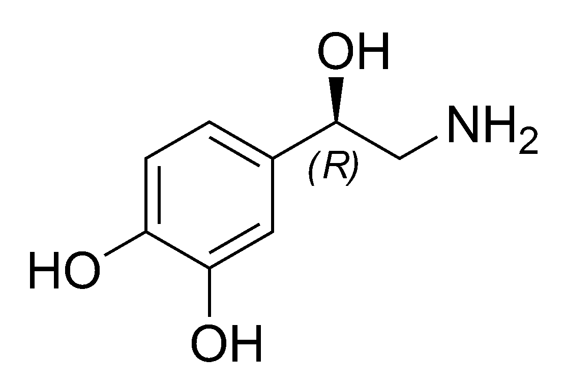 Chemical structure of norepinephrine (noradrenaline)